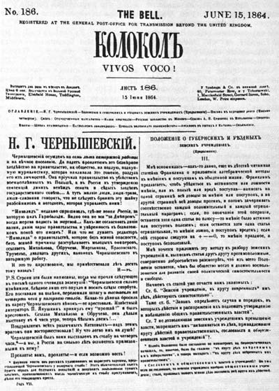 Russian newspaper "Kolokol" (The Bell), 1864, №186